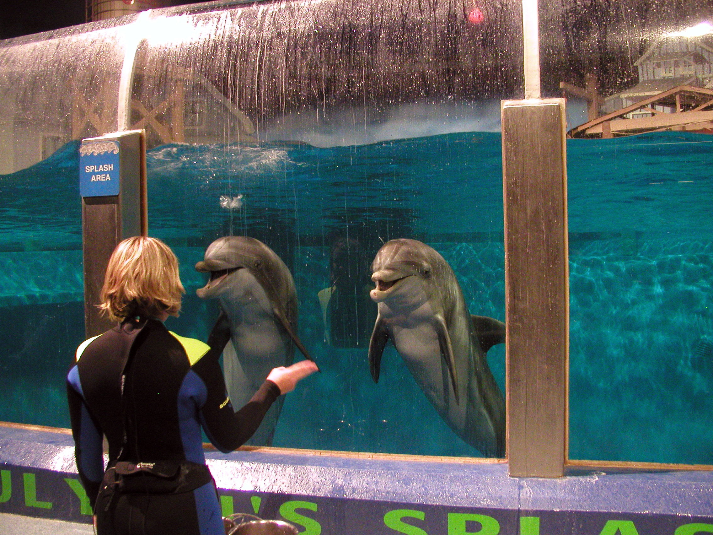 Ripley and China (adult Atlantic Bottlenose Dolphins) demonstrating the squawk vocalization during a chat at the Indianapolis Zoo's Marsh Dolphin Adventure Theater